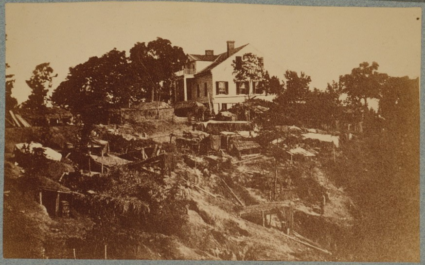 Quarters of Logan's division in the trenches in front of Vicksburg